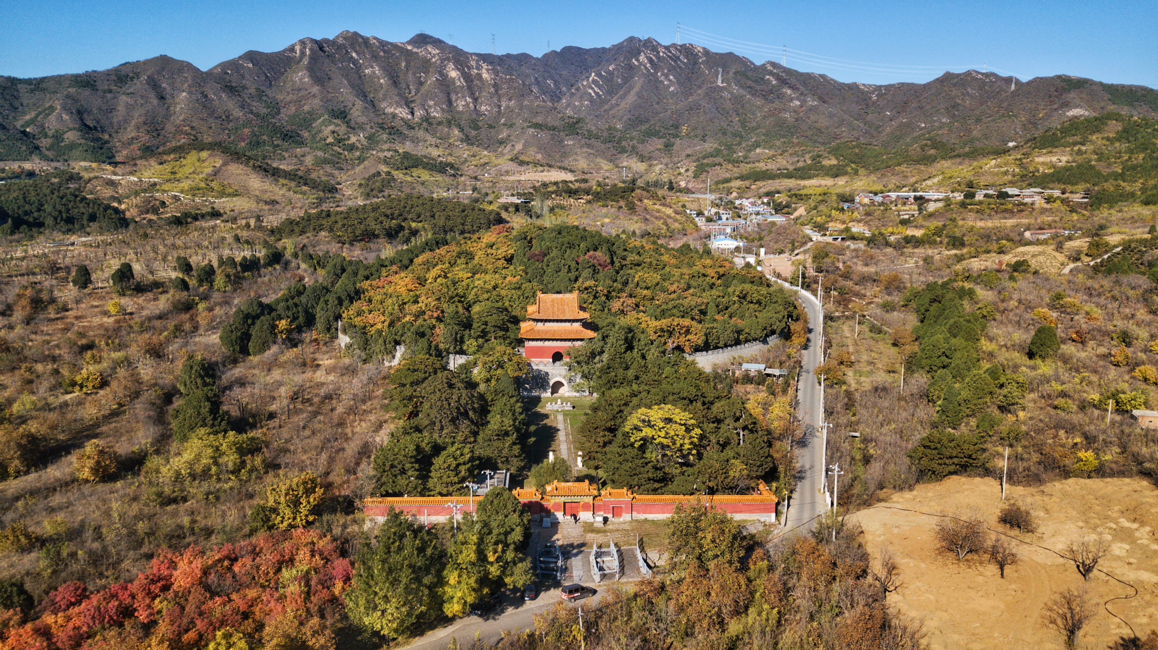 The Xianling mausoleum where the Hongxi emperor was buried.